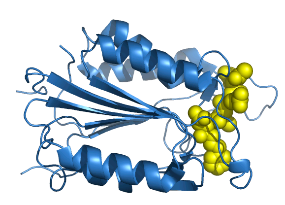 self-made in Pymol from PDB:1RHK